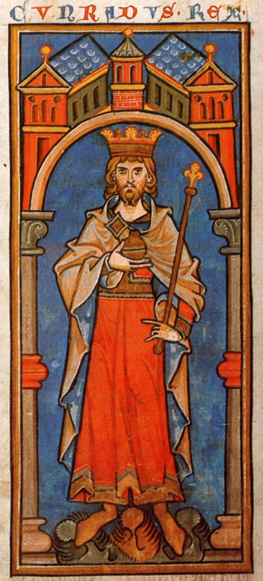 Miniature of Conrad III of Germany from Chronica Regia Coloniensis (Cologne Kings' Chronicle; Cologne; ca. 1240). Brussels, Bibliothèque Royale, Ms. 467, fol. 64v